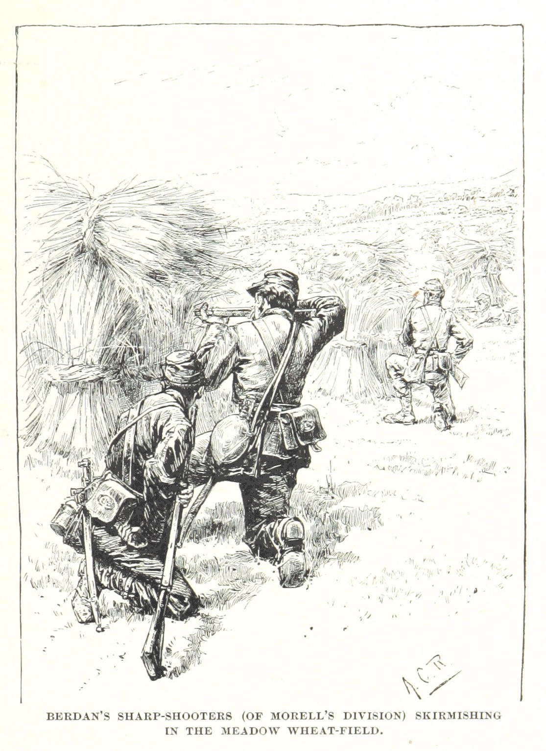 Members of the 1st United States Sharpshooters fire on Confederate forces during the Battle of Malvern Hill.